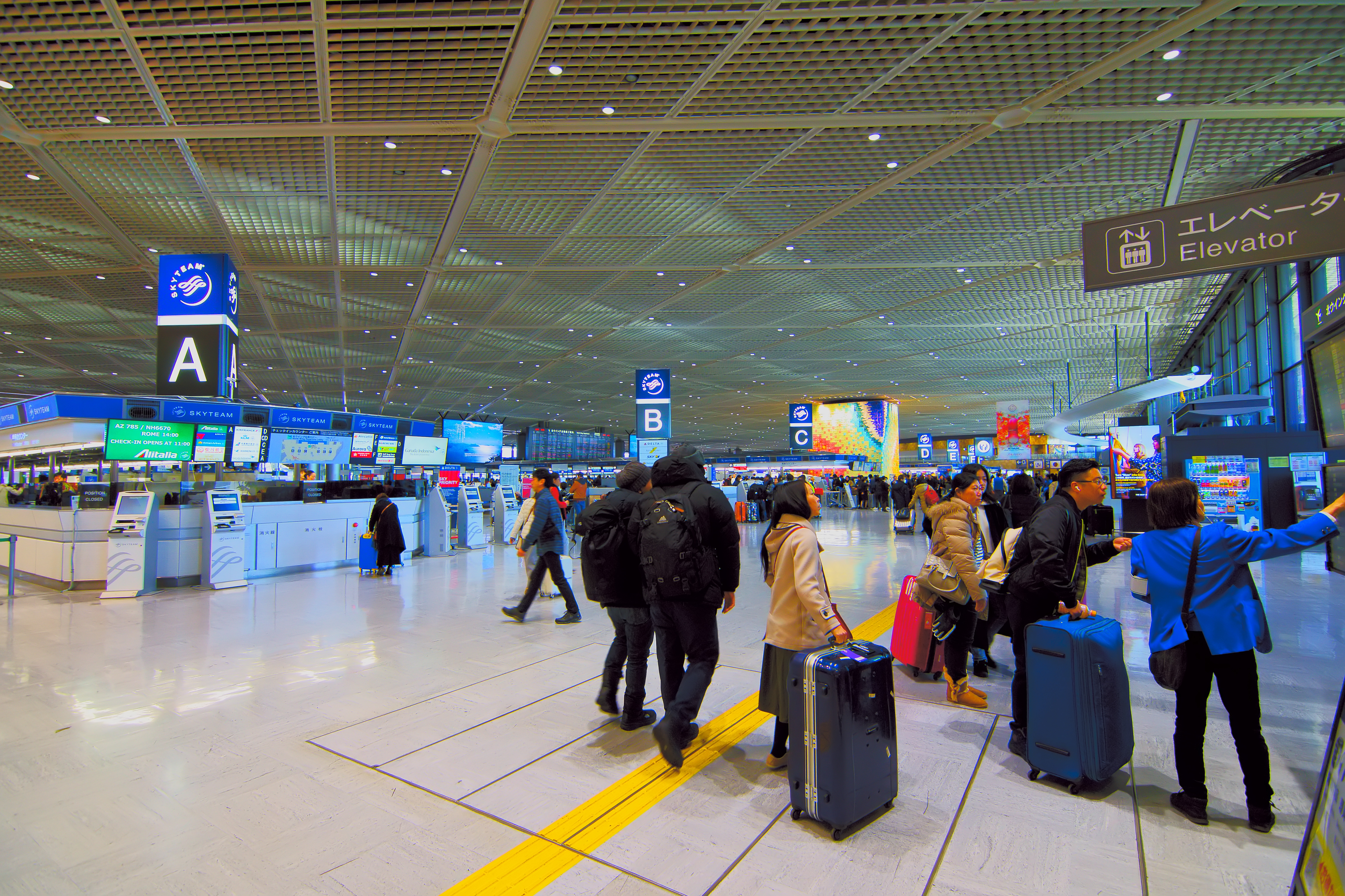 Terminal1 North Wing Departure lobby of Tokyo Narita Airport be used by Sky Team.